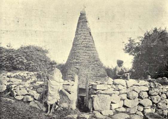 from Edgar thurstons Caste and Tribes of Southern India.